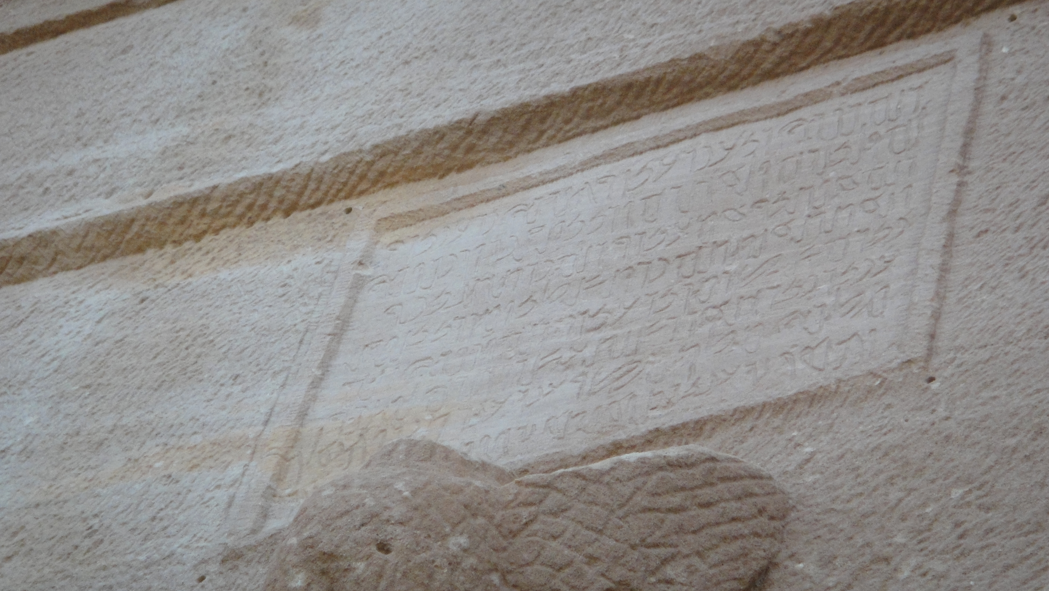 Nabatean kingdom language scripts written above tombs.